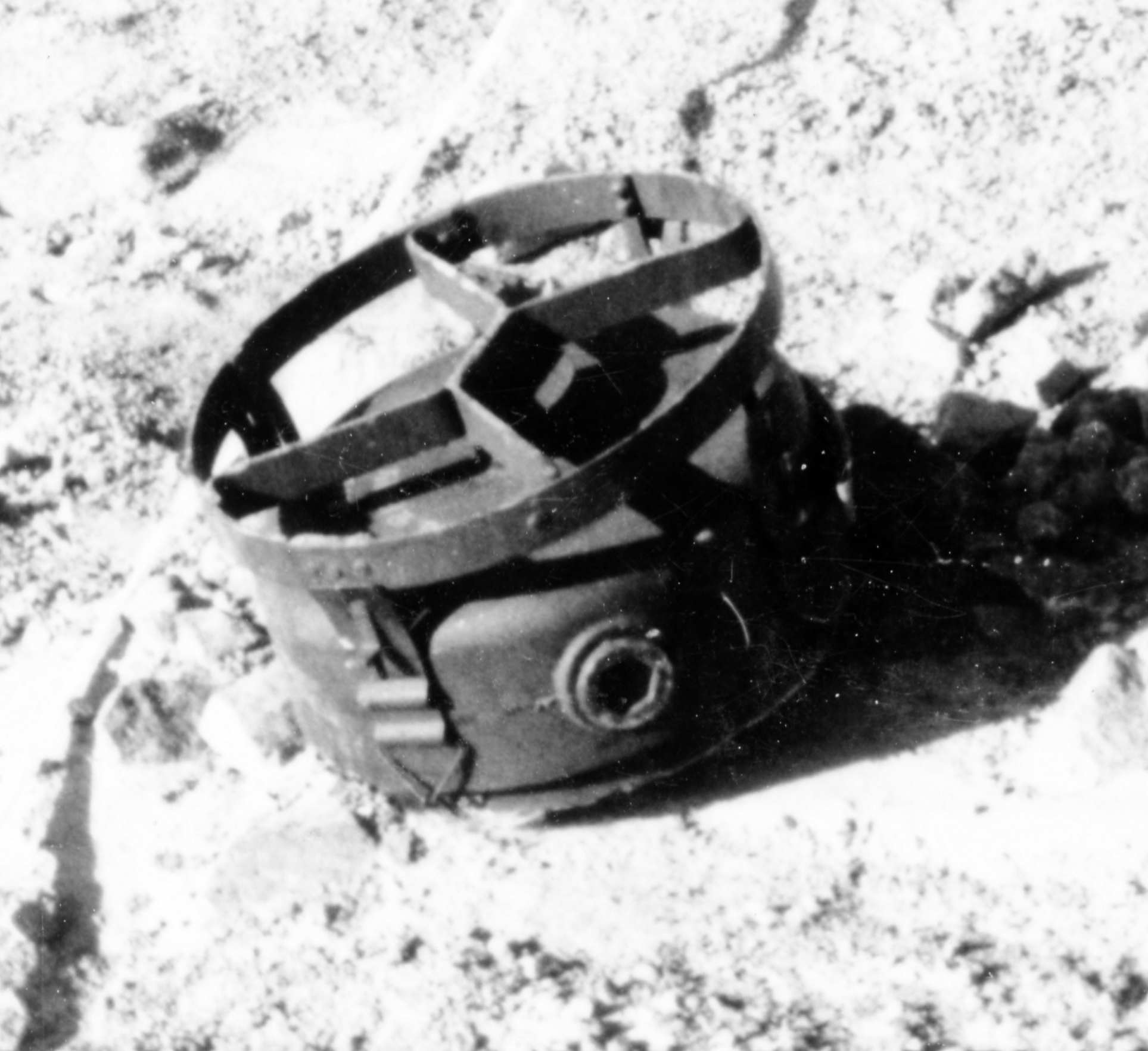 Spider A.T. Mine, 1969